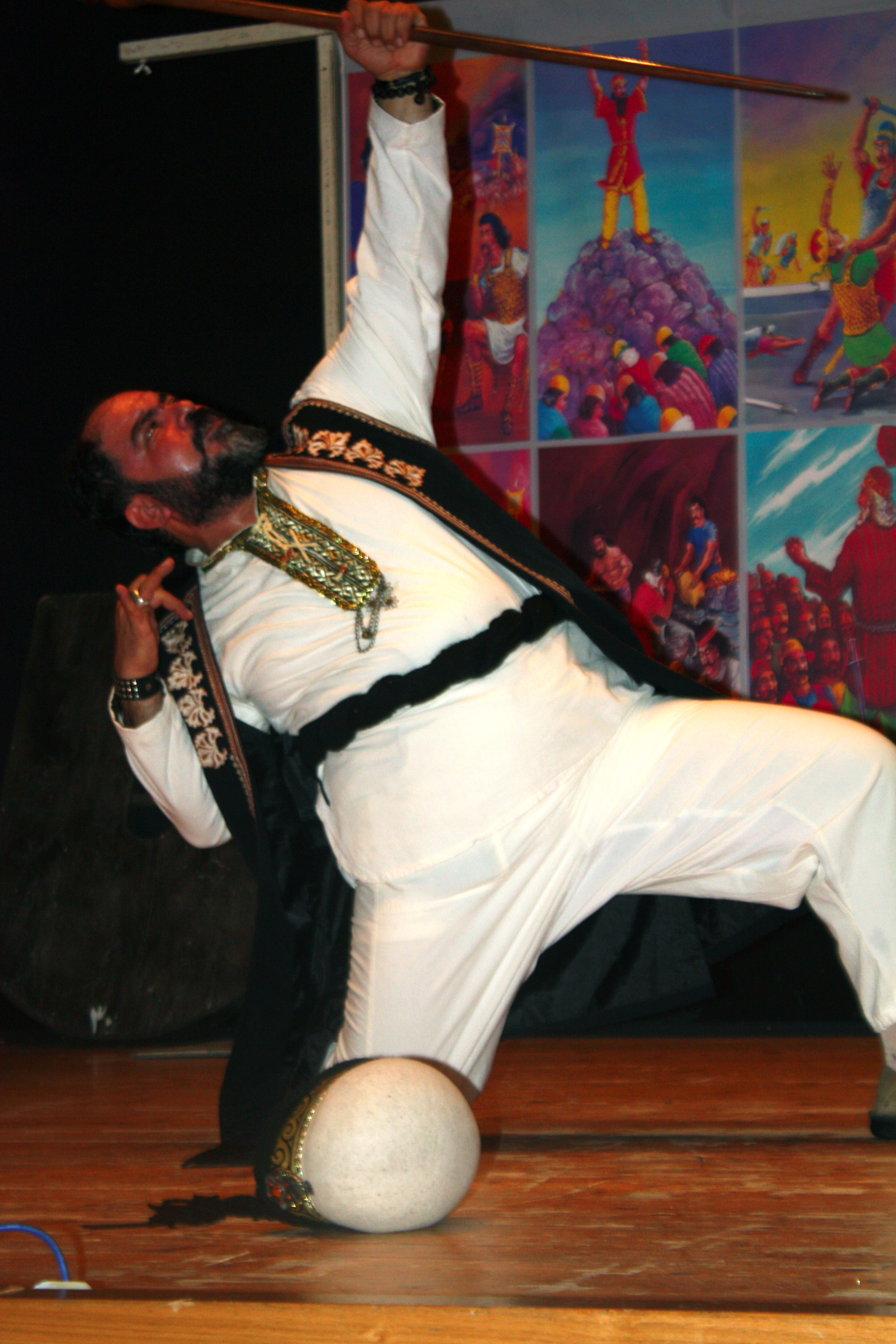 Abolfazl Varmazyar, Iranian naqqāl (storyteller) of Shahnameh.